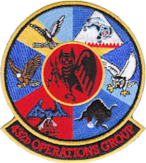 432d Operations Group Gaggle Patch